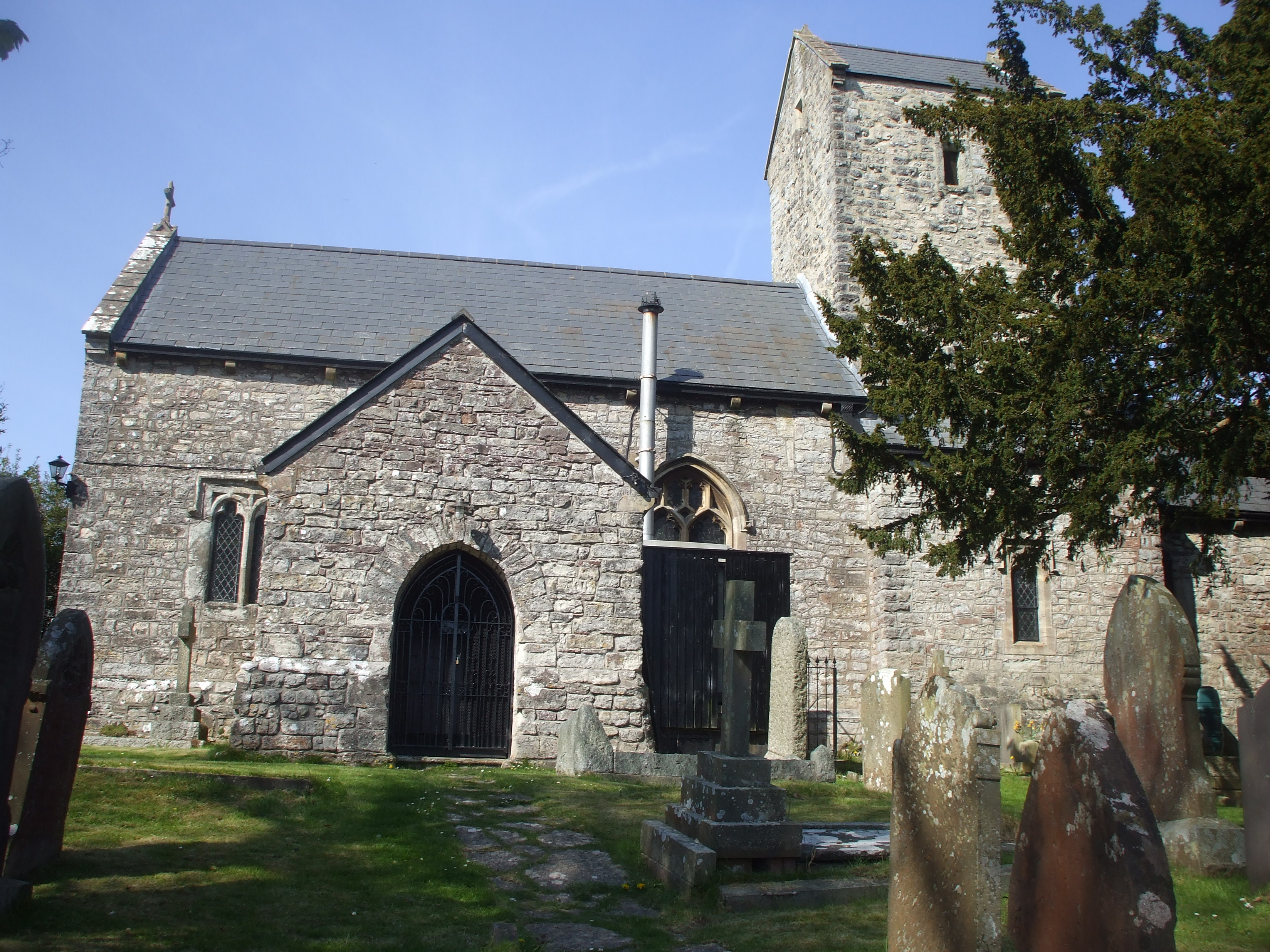 The church is somewhat unusual in having a central tower.